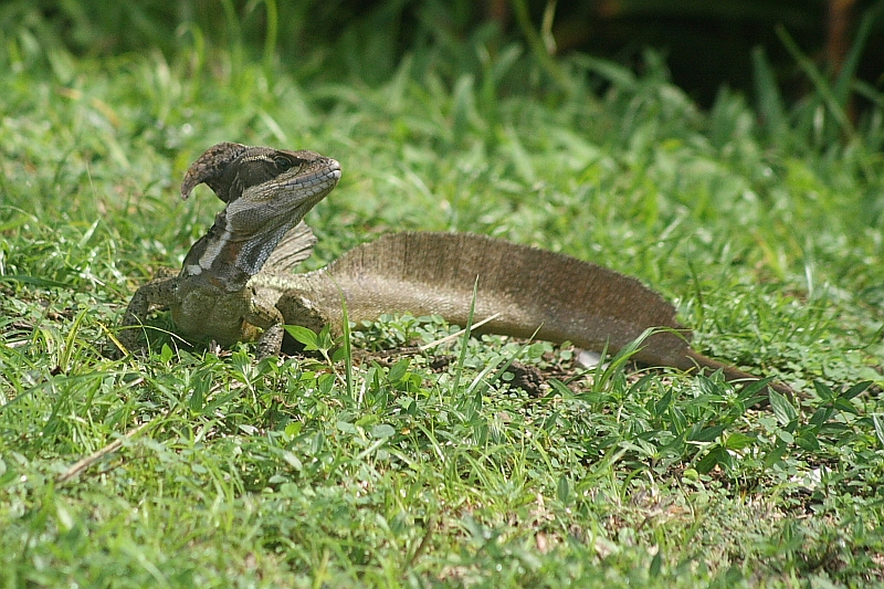 Common basilisk